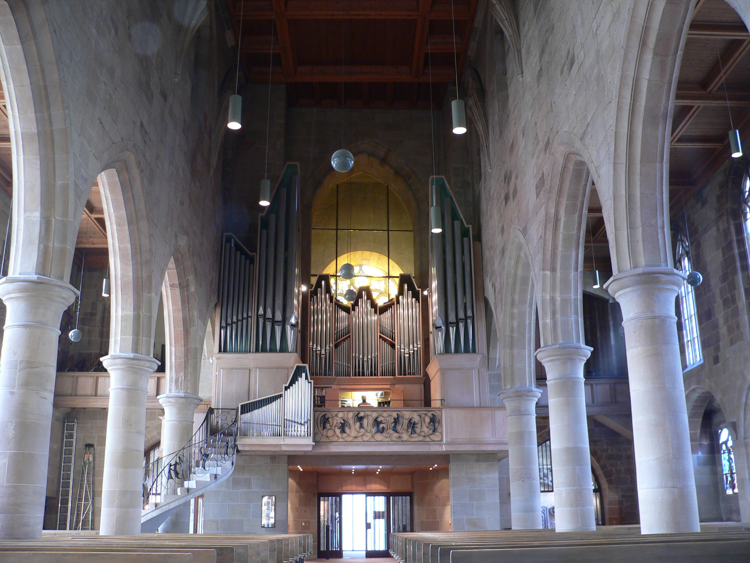 Gallery with Organ in the Church Kilianskirche of Heilbronn - Germany